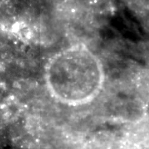 Slocum lunar crater - Clementine image.